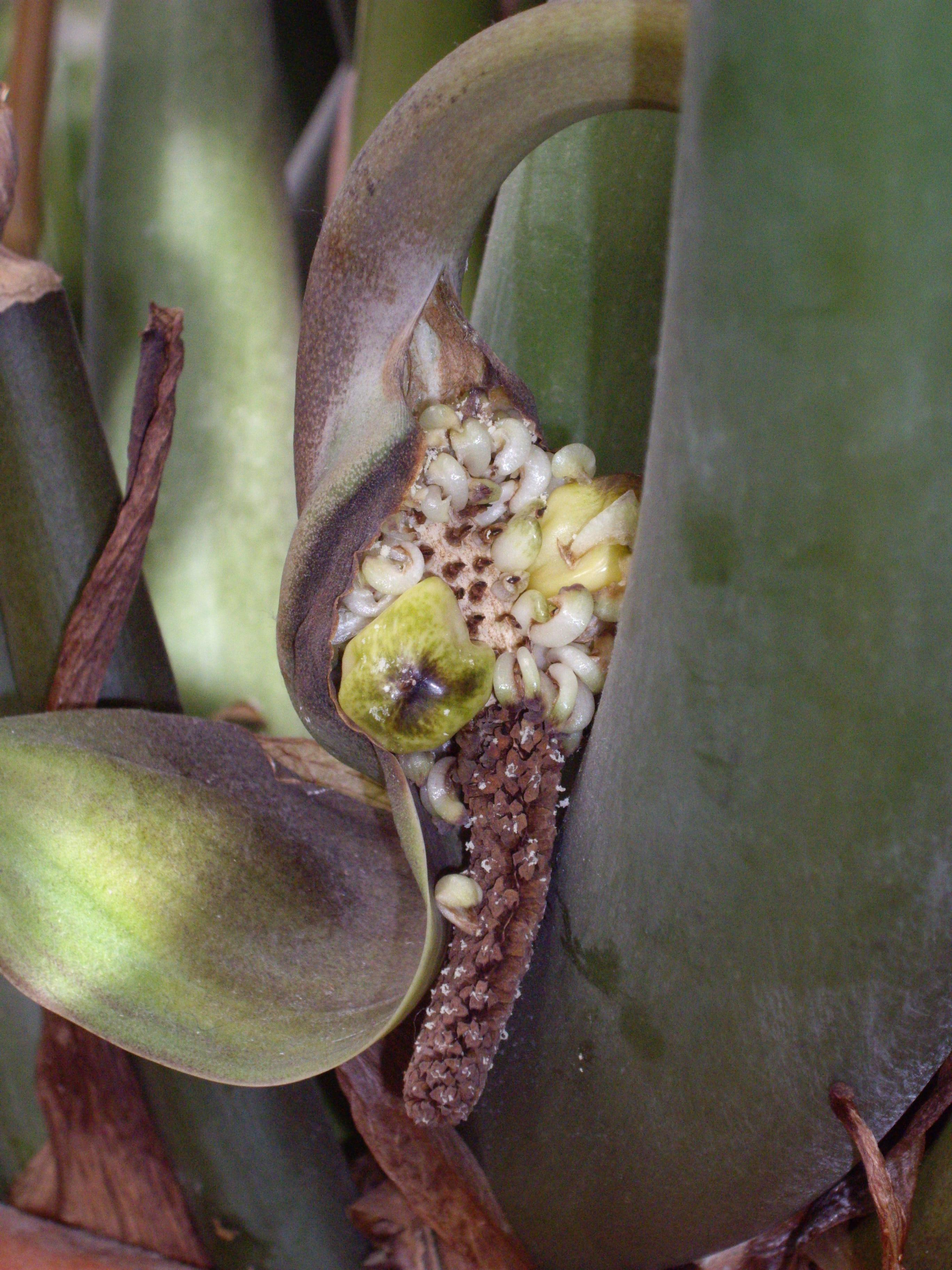 Open fruit of Zamioculcas zamiifolia with seeds